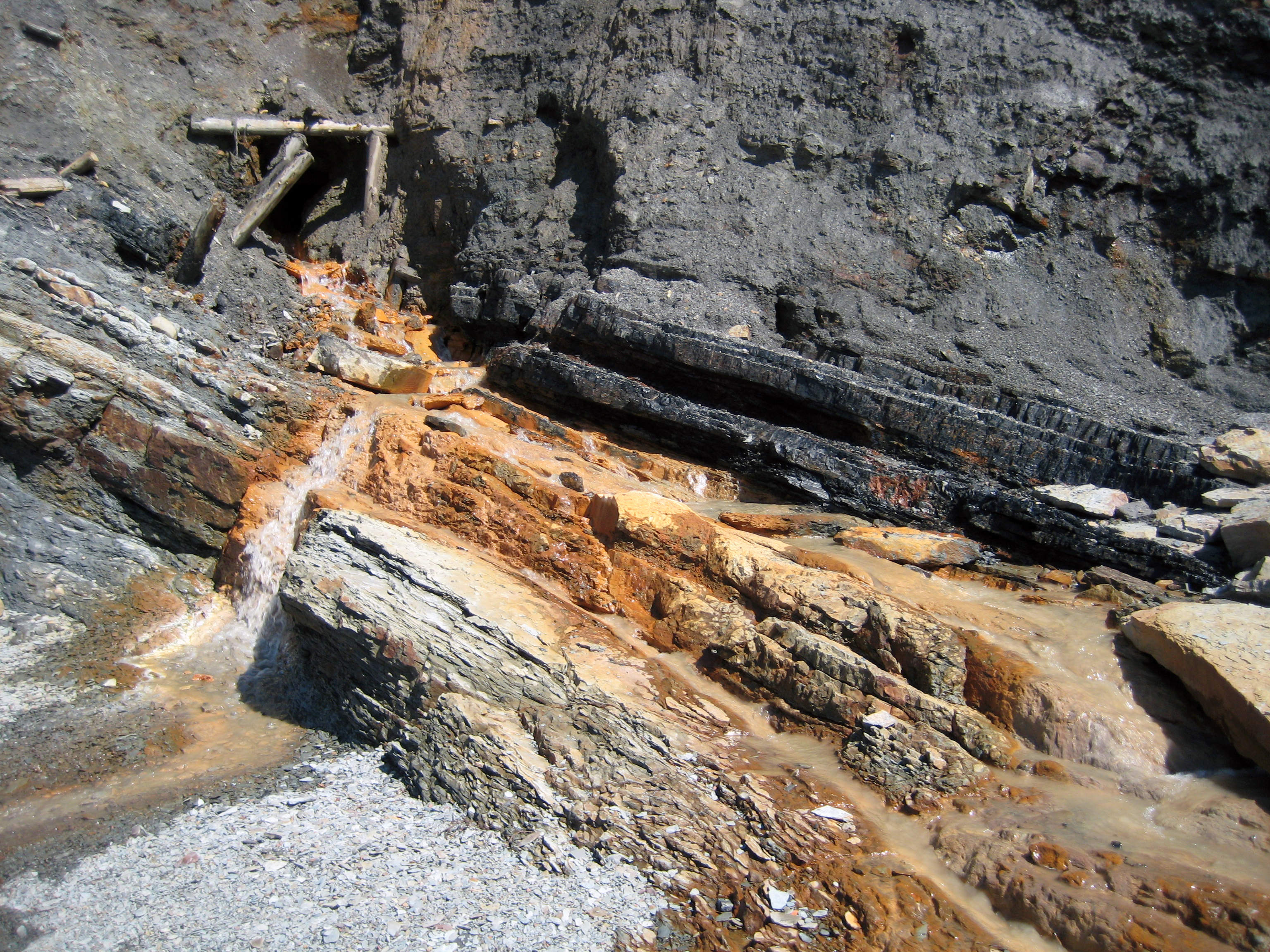 Acid mine drainage spilling from a collapsed mine tunnel at outcrop of the so-called Fundy seam[1] (middle part of Joggins Formation, lower Pennsylvanian) north of Joggins, Nova Scotia.